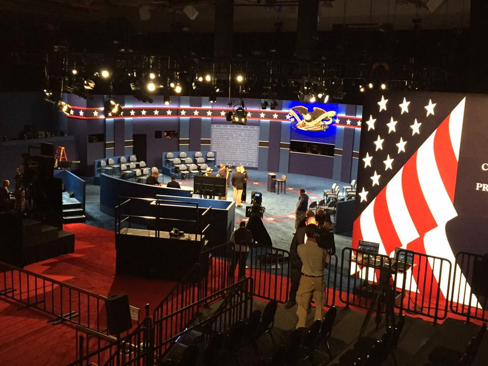 Second presidential debate venue